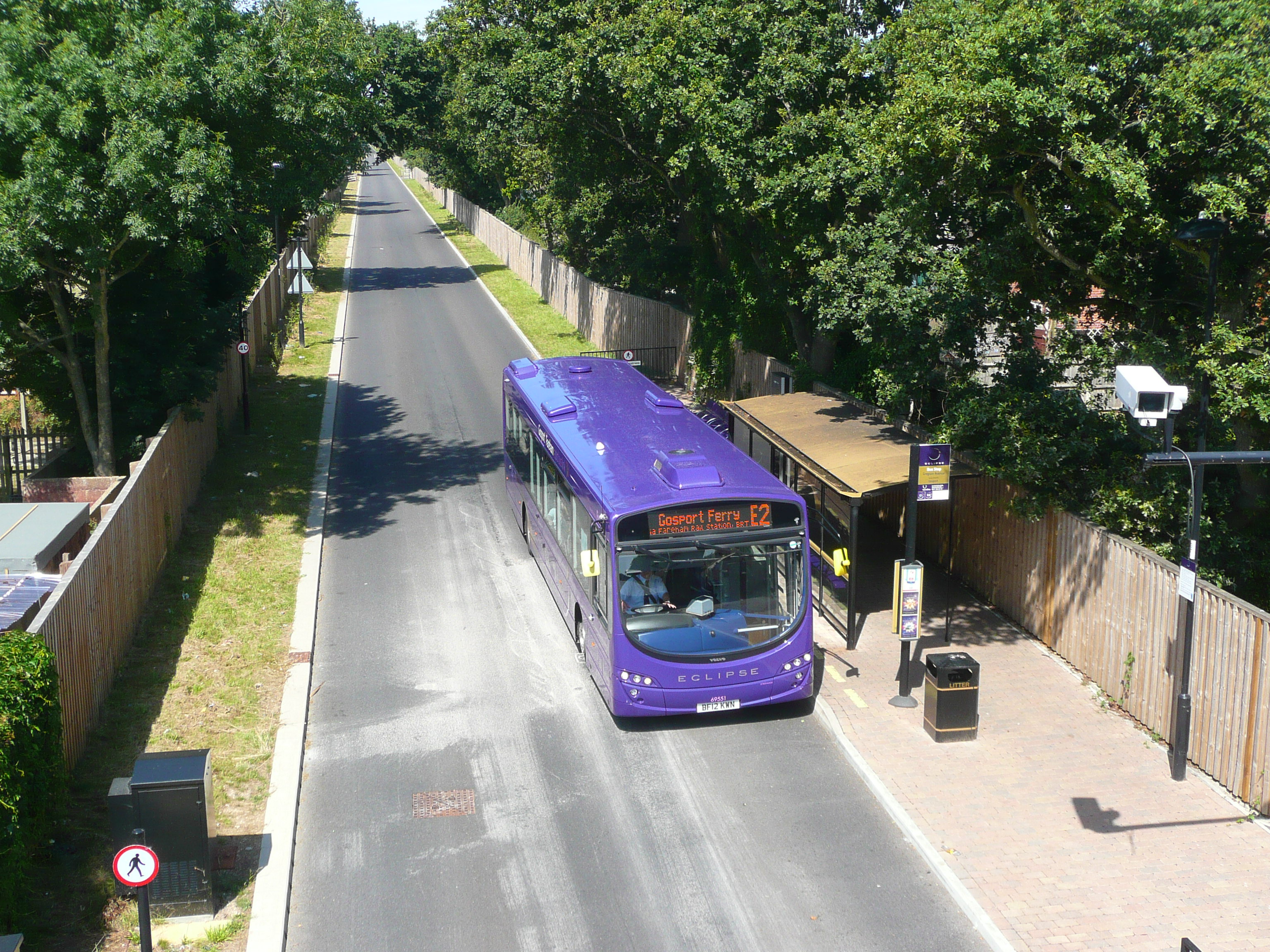 An Eclipse BRT bus calls at the Gregson Avenue bus stop, as seen from the Gregson Avenue road bridge over the busway.